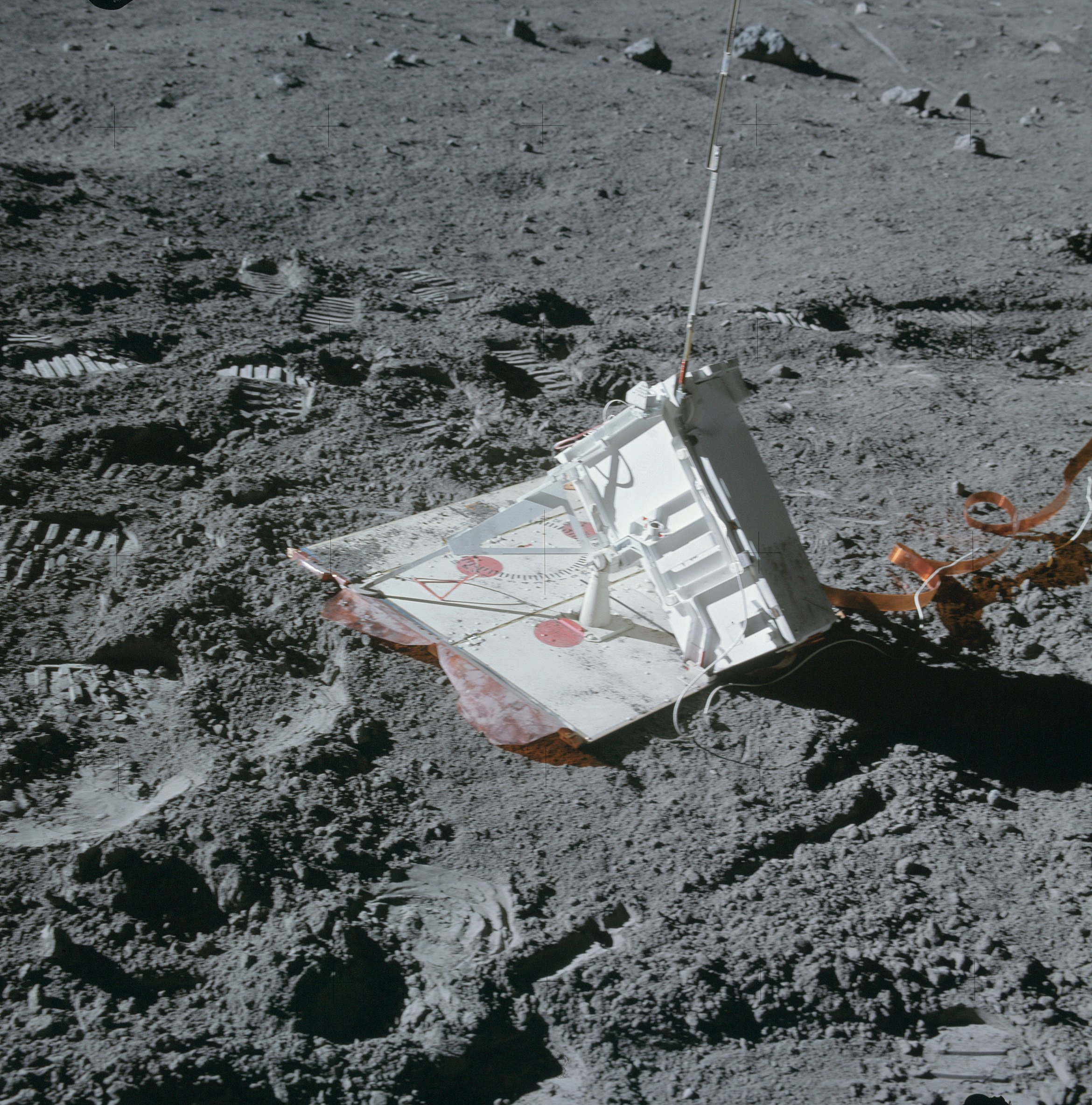 The mortor package for Apollo 16's Active Seismic Experiment.